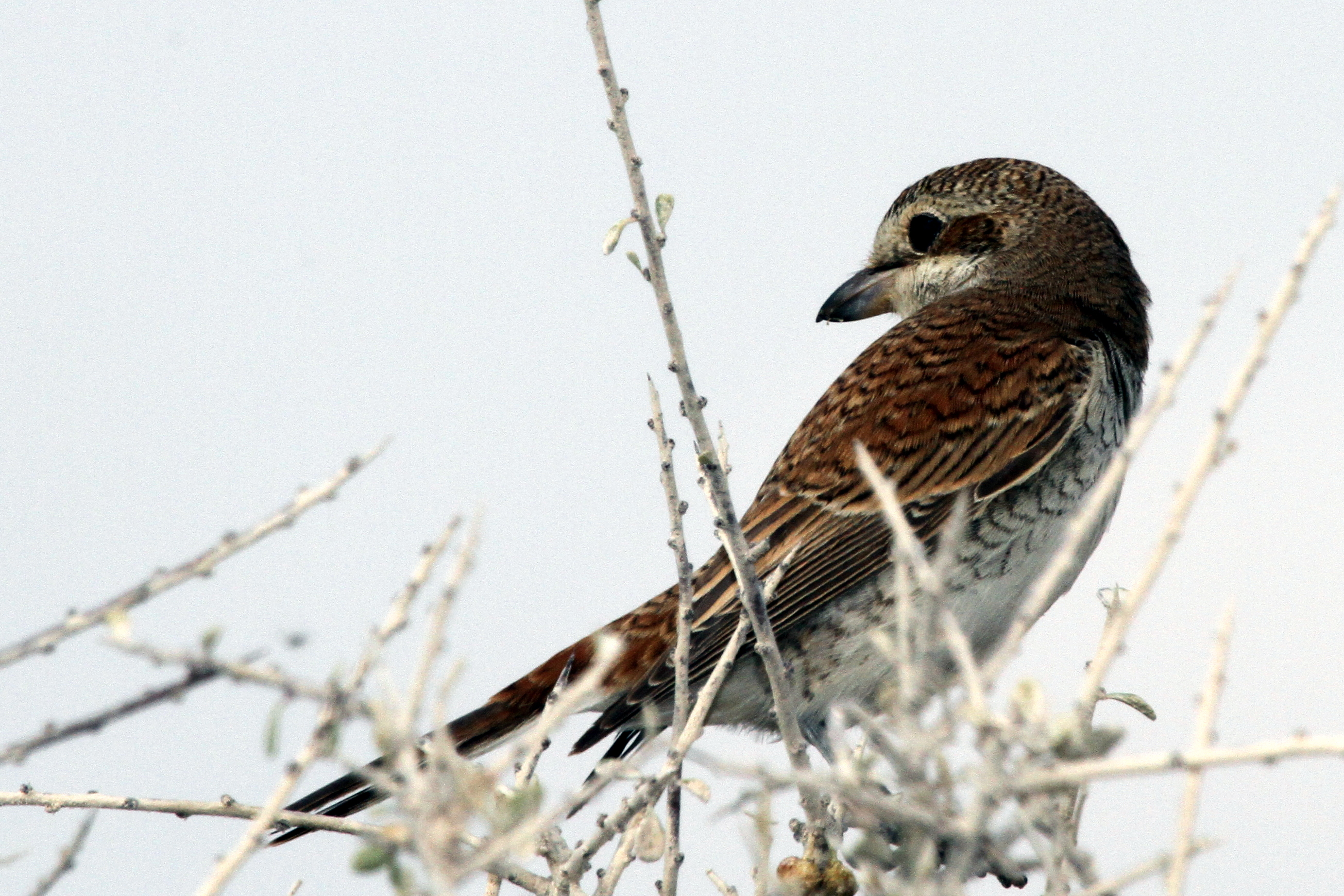 Red-backed Shrike Israel